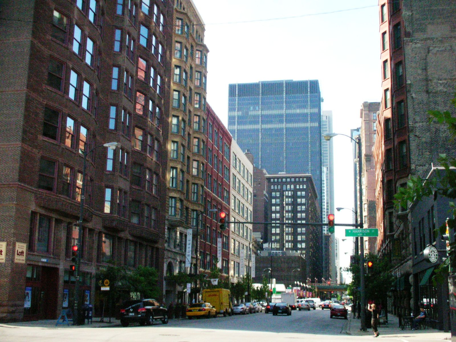 A street view in Printer's Row, Chicago, USA.